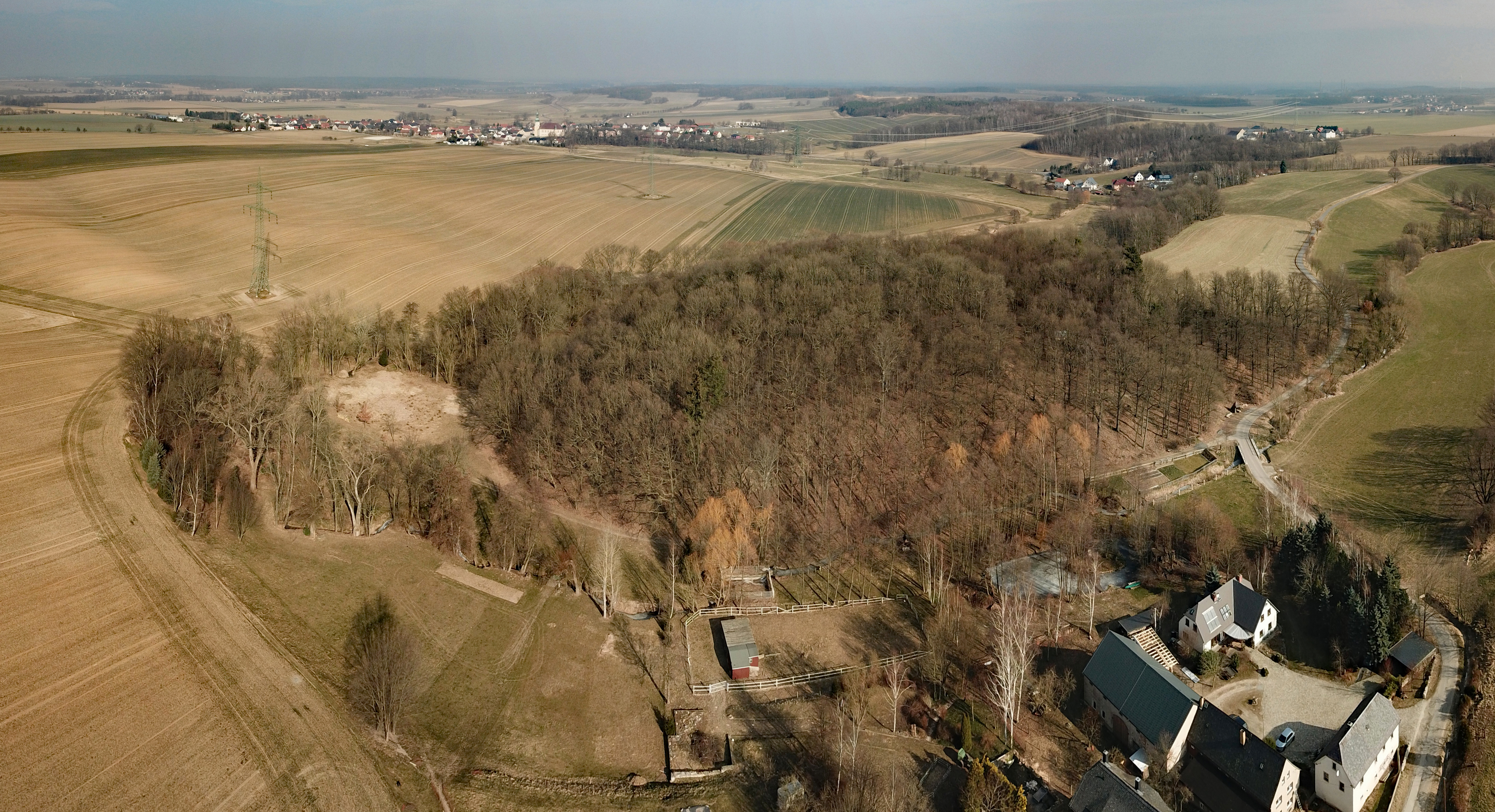 Kopschiner Schanze (Crostwitz, Saxony, Germany) Hornjoserbsce: Powětrowy wobraz Kopšinjanskeho hrodźišća